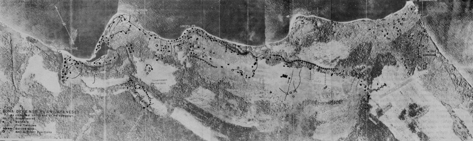 USA-P-Papua-9 JAPANESE DEFENSES AT BUNA. Reproduction of original photomap from Report of the Commanding General Buna Forces in the Buna Campaign. December 1, 1942-January 25, 1943. milner